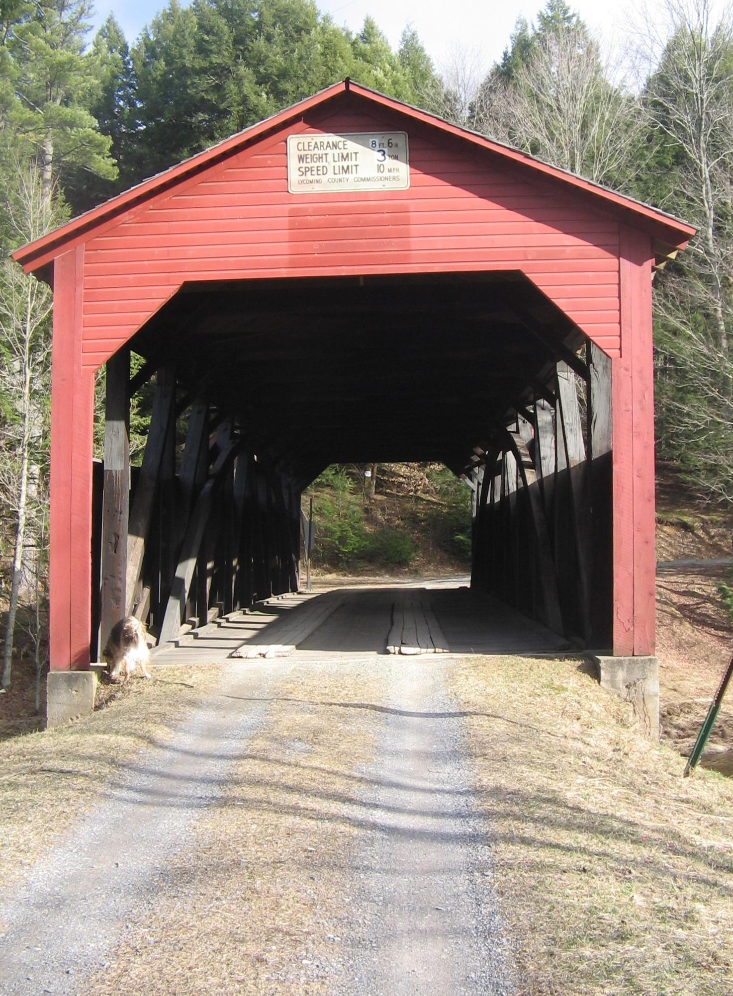 Larrys Creek Covered Bridge (also known as Cogan House Covered Bridge and Buckhorn Covered Bridge) over Larrys Creek in Cogan House Township, Pennsylvania, USA. Bridge built 1877, rehabilitated 1998. On the US National Register of Historic Places. A Burr arch truss bridge.